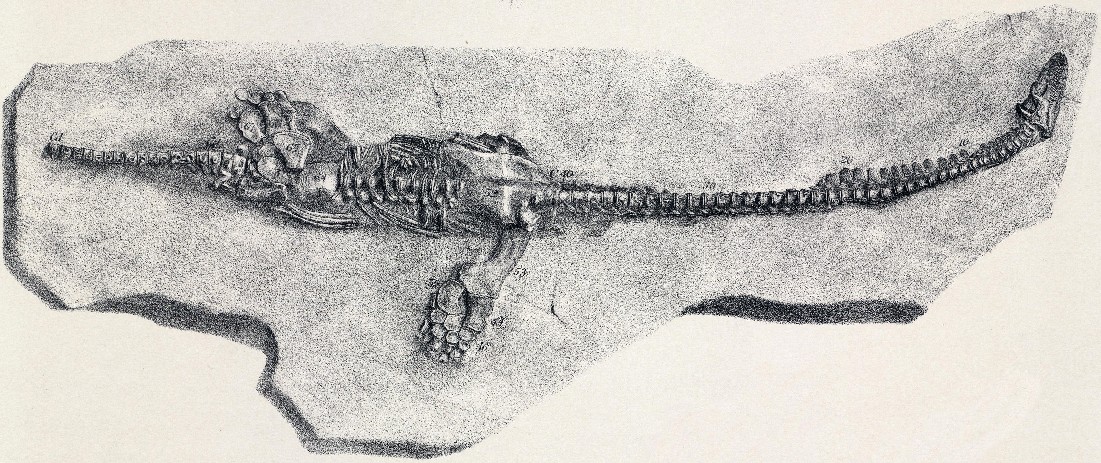 Plesiosaurus dolichodeirus. Fig. 1. Skeleton (No. 3), 1-10th nat. size. From the Lower Lias of Lyme Regis. In the British Museum.